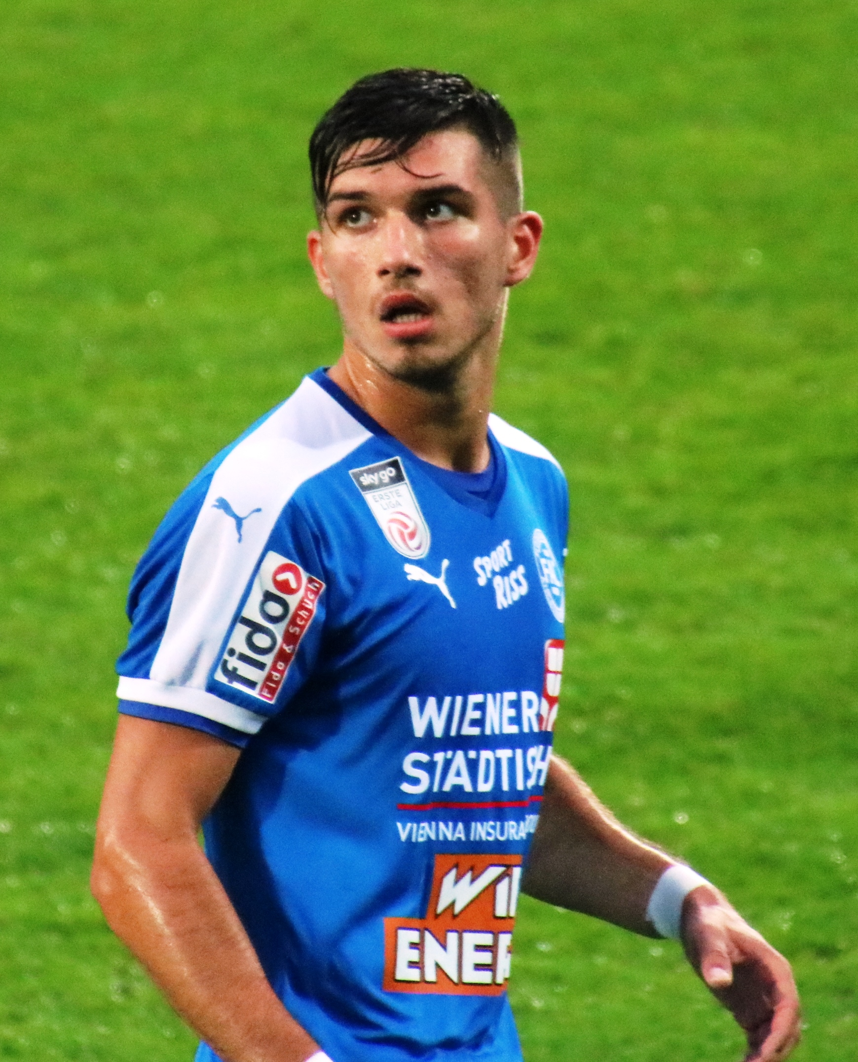 league match Austria 2nd league 4th round